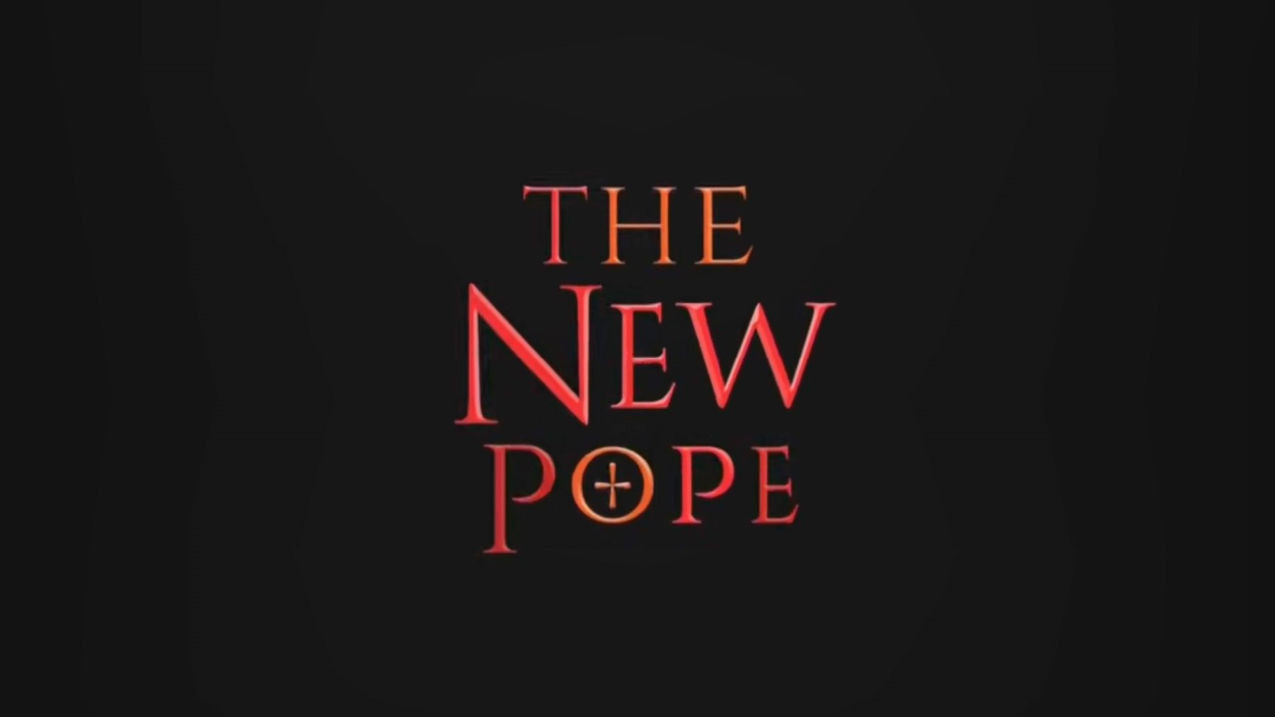 The New Pope title screen